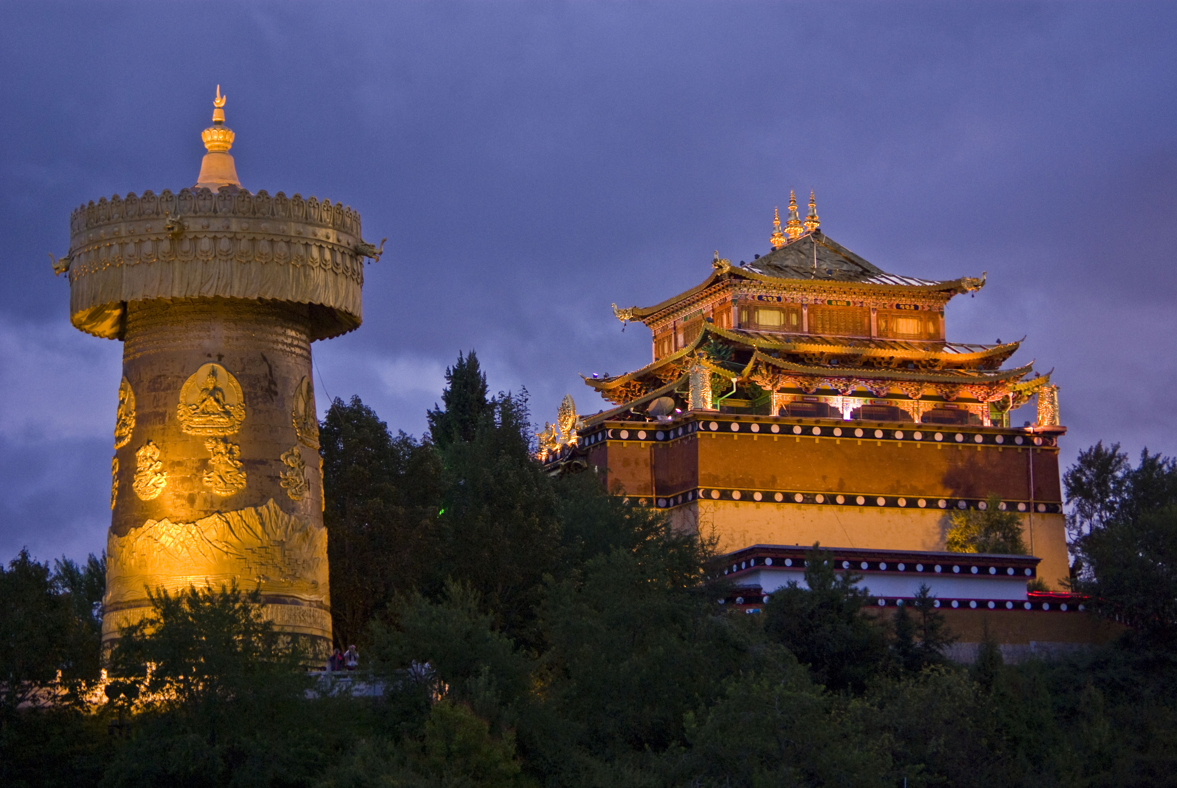 Guishan Temple in Shangri-La (China)